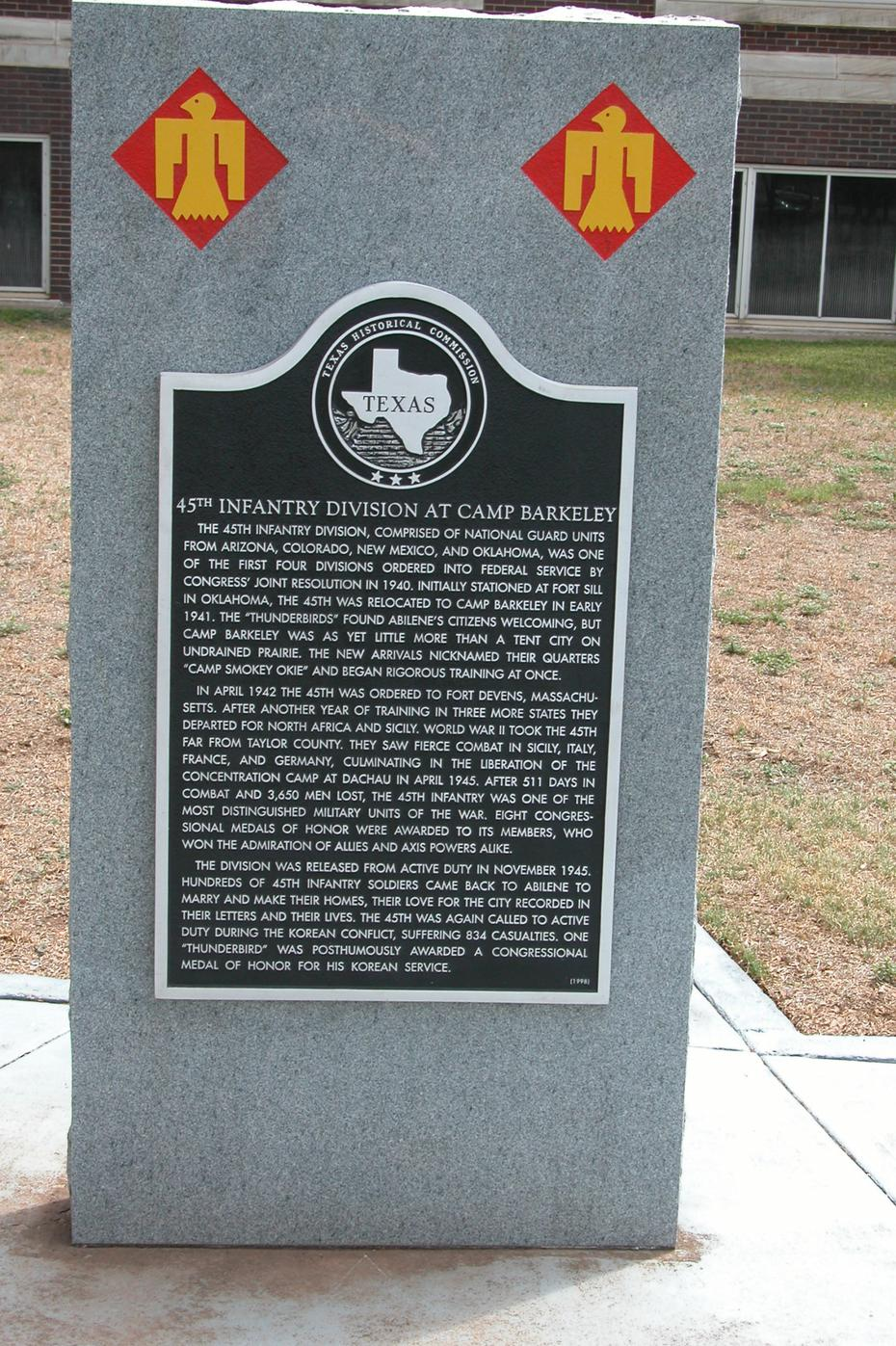 Historic plaque - 45th Infantry Division at Camp Barkeley Belden, Dreanna L.. Historic plaque - 45th Infantry Division at Camp Barkeley, Photograph, August 7, 2005; digital image, ( : accessed June 11, 2012), University of North Texas Libraries, The Portal to Texas History, crediting UNT Libraries, Denton, Texas.